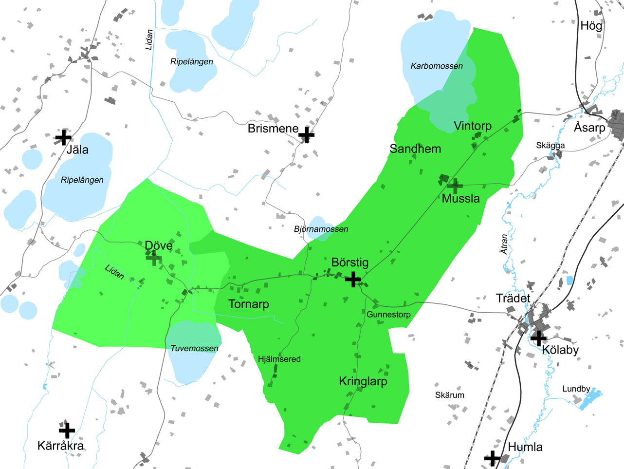 Map over Börstig parish in Frökind hundred, Falköping municipality, Västergötland, Sweden. Scale 1:40,000. The area of Börstig parish is marked green. The western part Döve did earlier belong to Kärråkra parish and Ås hundred, and are marked with a paler shade of green. Water and bogs are blueish. The churches of Börstig, Brismene, Jäla, Kärråkra, Humla, and Kölaby are marked with black crosses. The church-ruins of Döve and Mussla are marked with grey crosses. Roads, villages, and farms are grey.